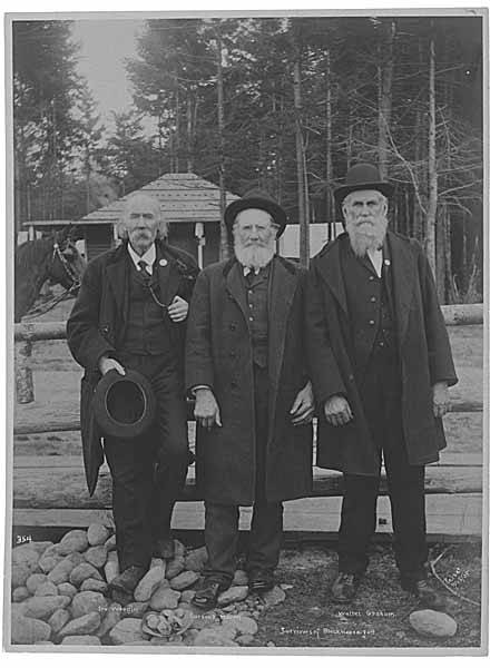 Caption on image: Ira Woodin, Carson D. Boren, Walter Graham, Survivors of Blockhouse Fort. Peiser. 11/13/05. 354 . Peiser 354 Title says "Probably at Alki Point": there really is no doubt, building is the same as in File:Seattle pioneers at the Alki Point Monument dedication, West Seattle neighborhood, Seattle, November 13, 1905 (PEISER 52).jpeg, shot the same day. So this would have been immediately adjacent to the Birthplace of Seattle Monument, although it's not shown.